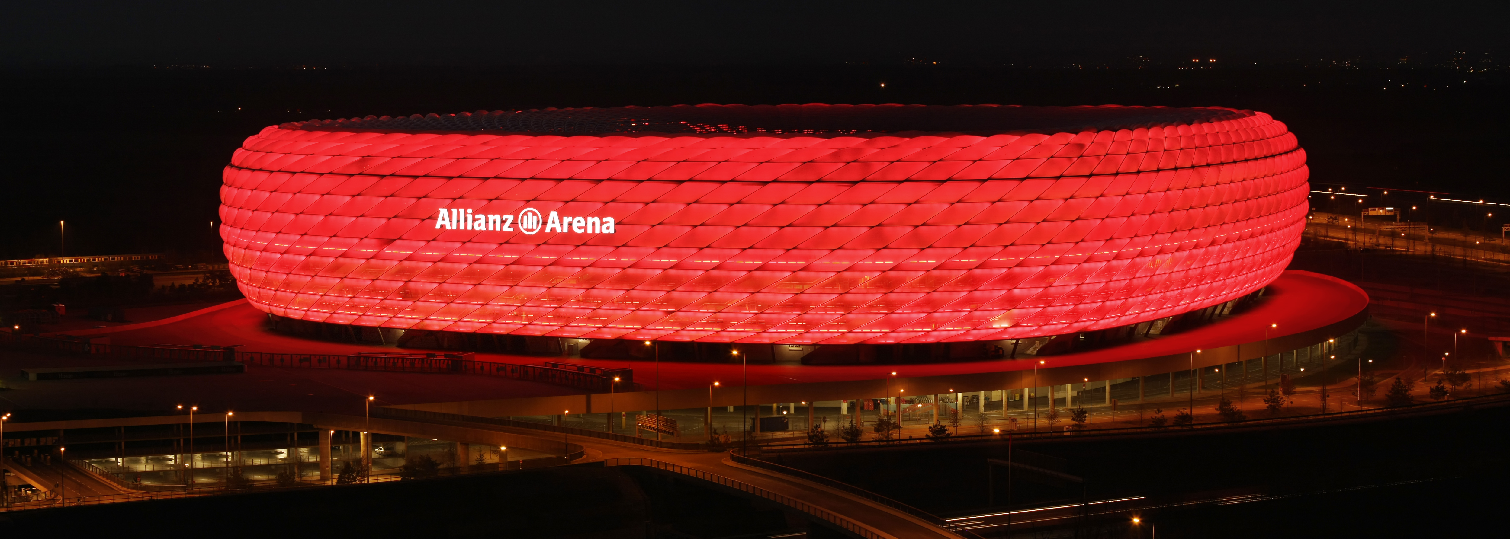 The Allianz Arena is a football stadium in the north of Munich, Germany. The two professional Munich football clubs FC Bayern München and TSV 1860 München have played their home games at Allianz Arena since the start of the 2005/06 season. Because of its shape, the stadium is nicknamed the « Schlauchboot » (inflatable boat).